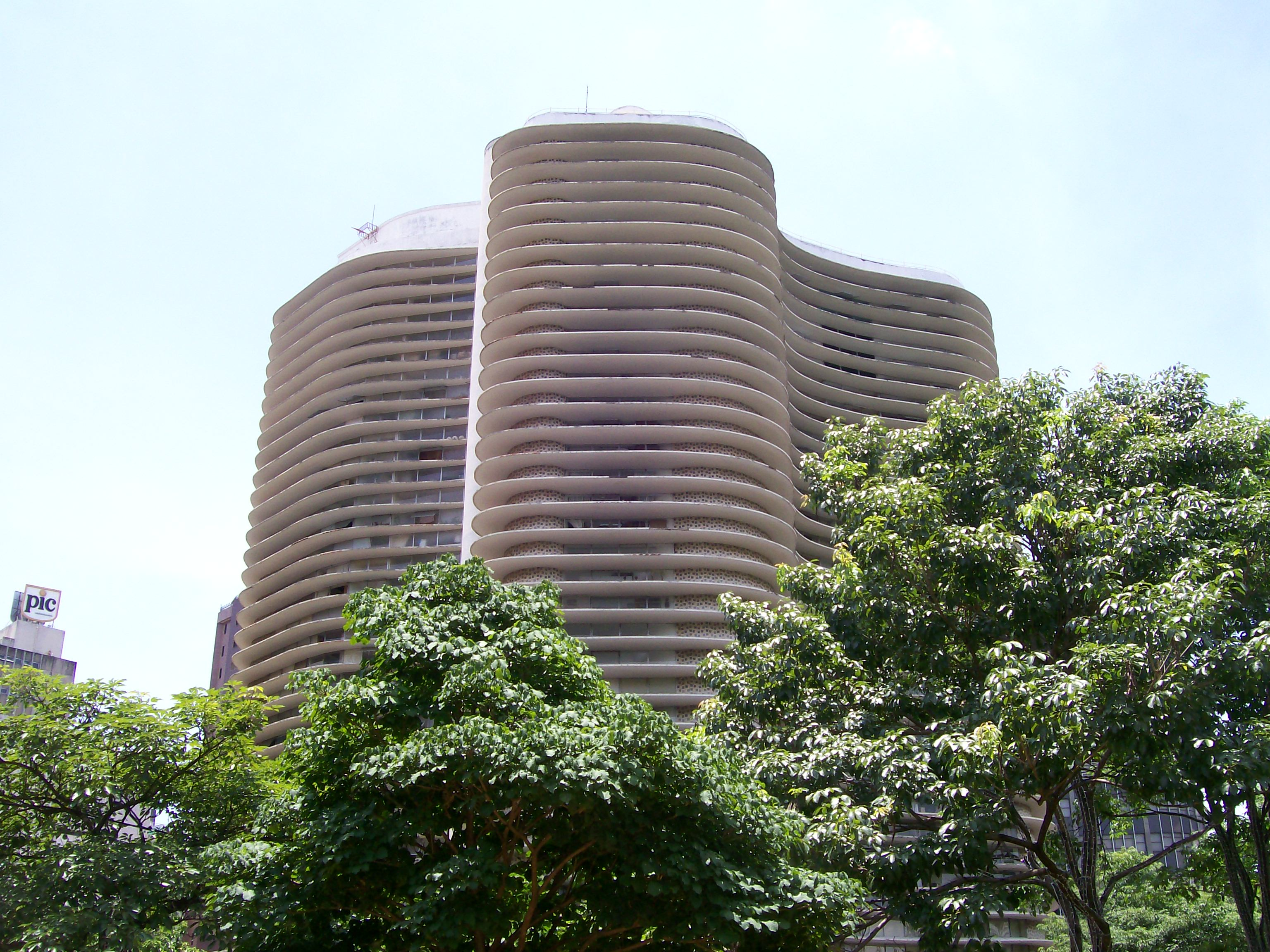 Niemeyer Building, Belo Horizonte, Brazil.